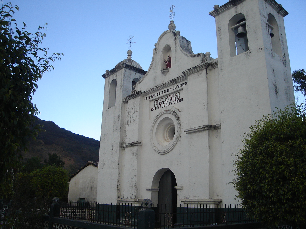 Church in Reitoca — a city in the Honduran department of Francisco Morazán.